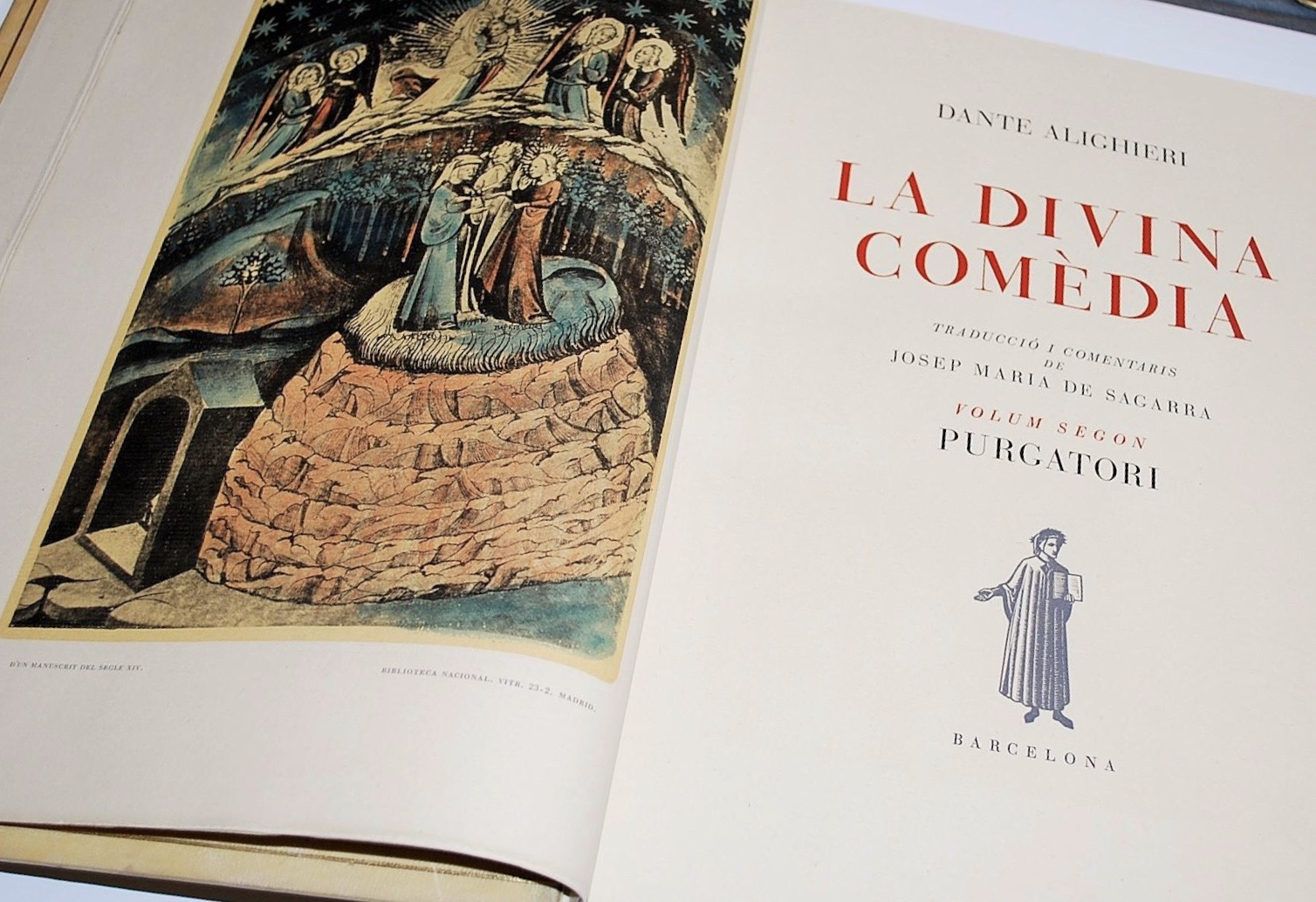 Segon volum de La Divina Comèdia, traducció i comentaris de Josep M. de Sagarra. Imprès a Joan Sallent, Successors.